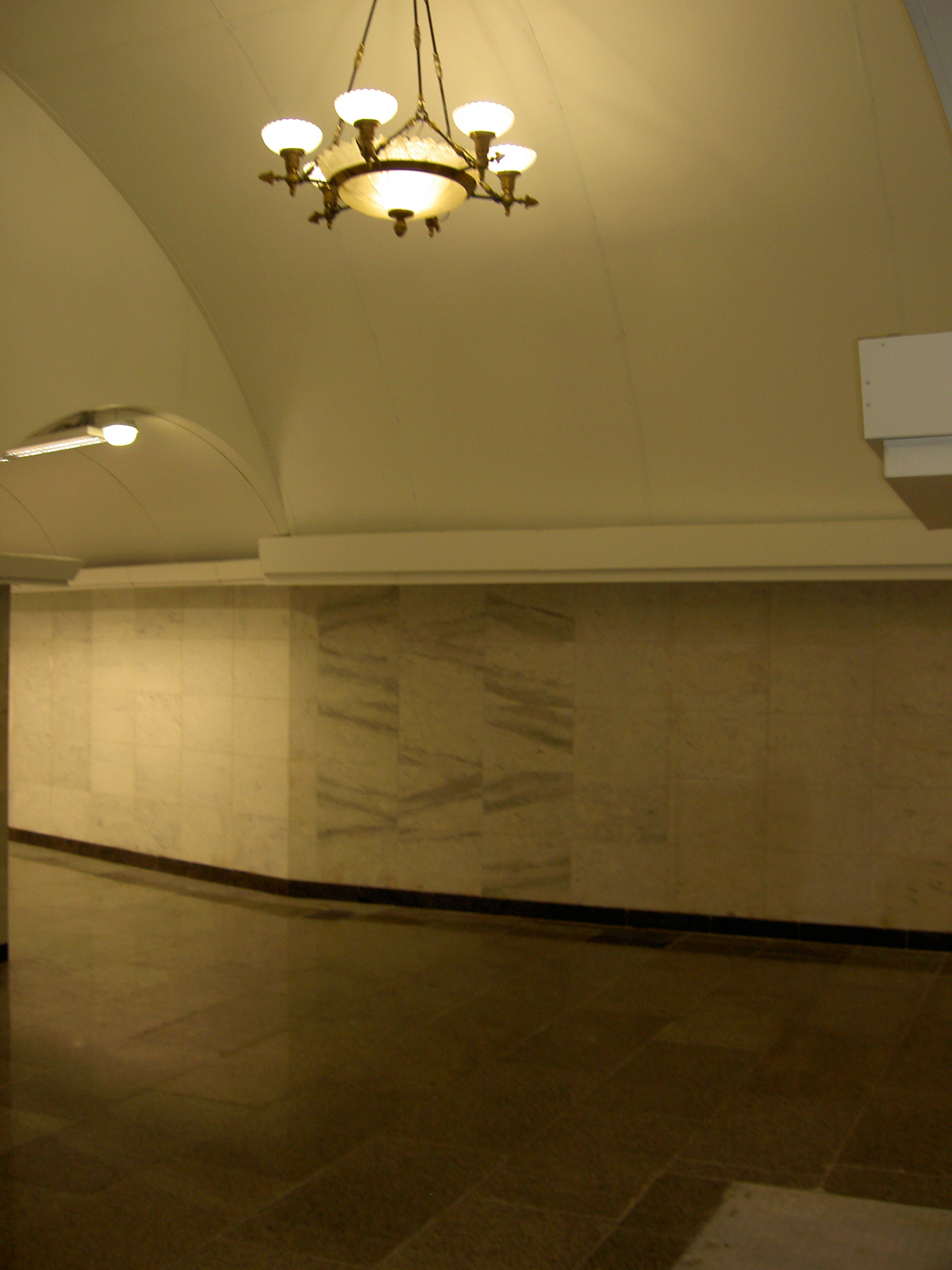 Crossing between metro stations «Puskhinskaya» and «Zvenigorodskaya».